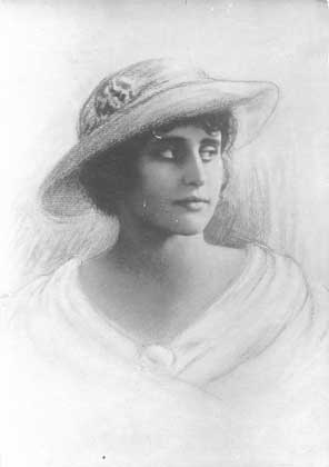 Vira Vasylivna Kholodna (Levchenko) (in russian - Vera Vasil'evna Kholodnaya), who was born in Ukraine, and who was an actress of Russian empire.